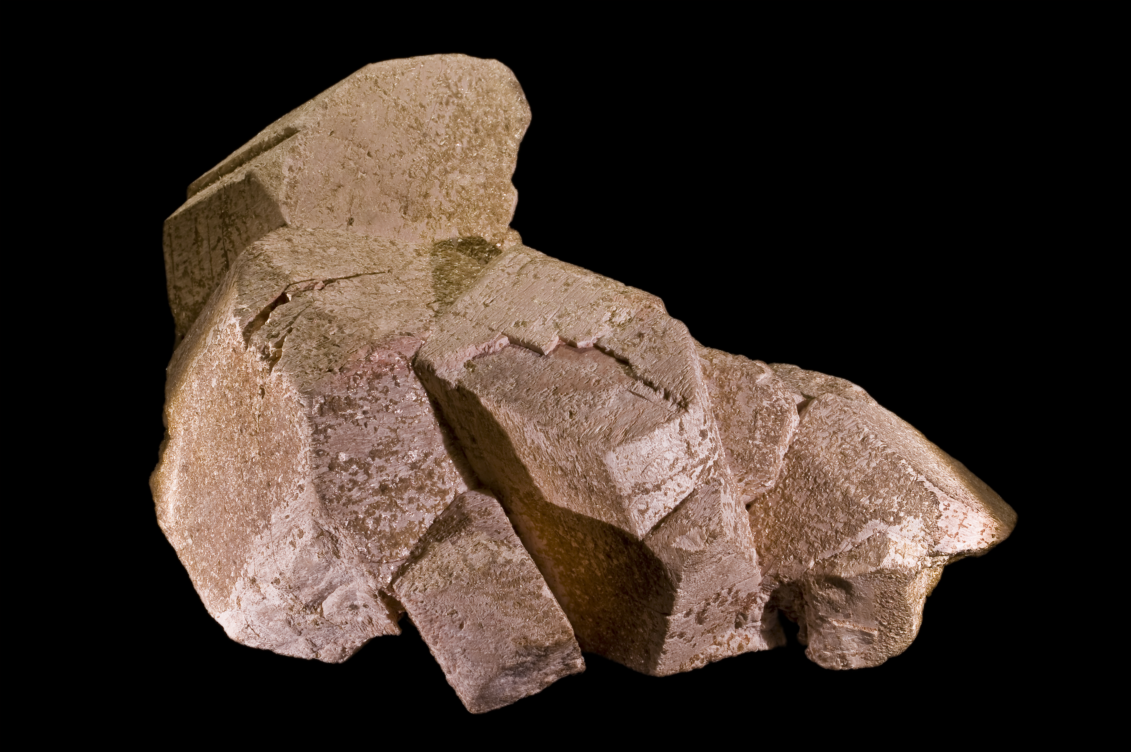 Orthoclase Locality : Minas Gerais, Southeast Region, Brazil Size : (27x17cm)